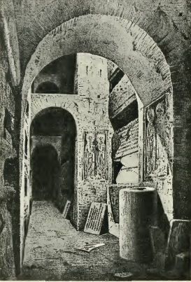 Illustrations from File:Hymnus in Romam.djvu